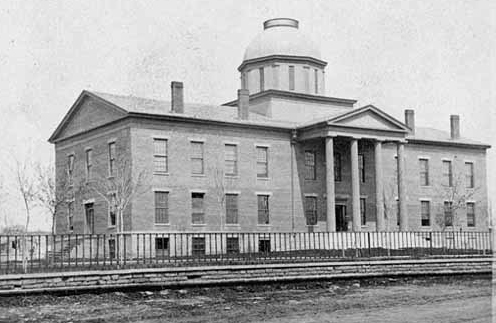 Photograph of Minnesota's State Capitol (built 1854)